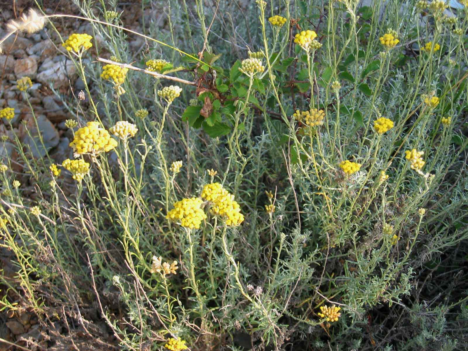 Peščeni smilj (Helichrysum arenarium) (at island Cres, Croatia) photo:Ziga 12:52, 11 April 2007 (UTC)